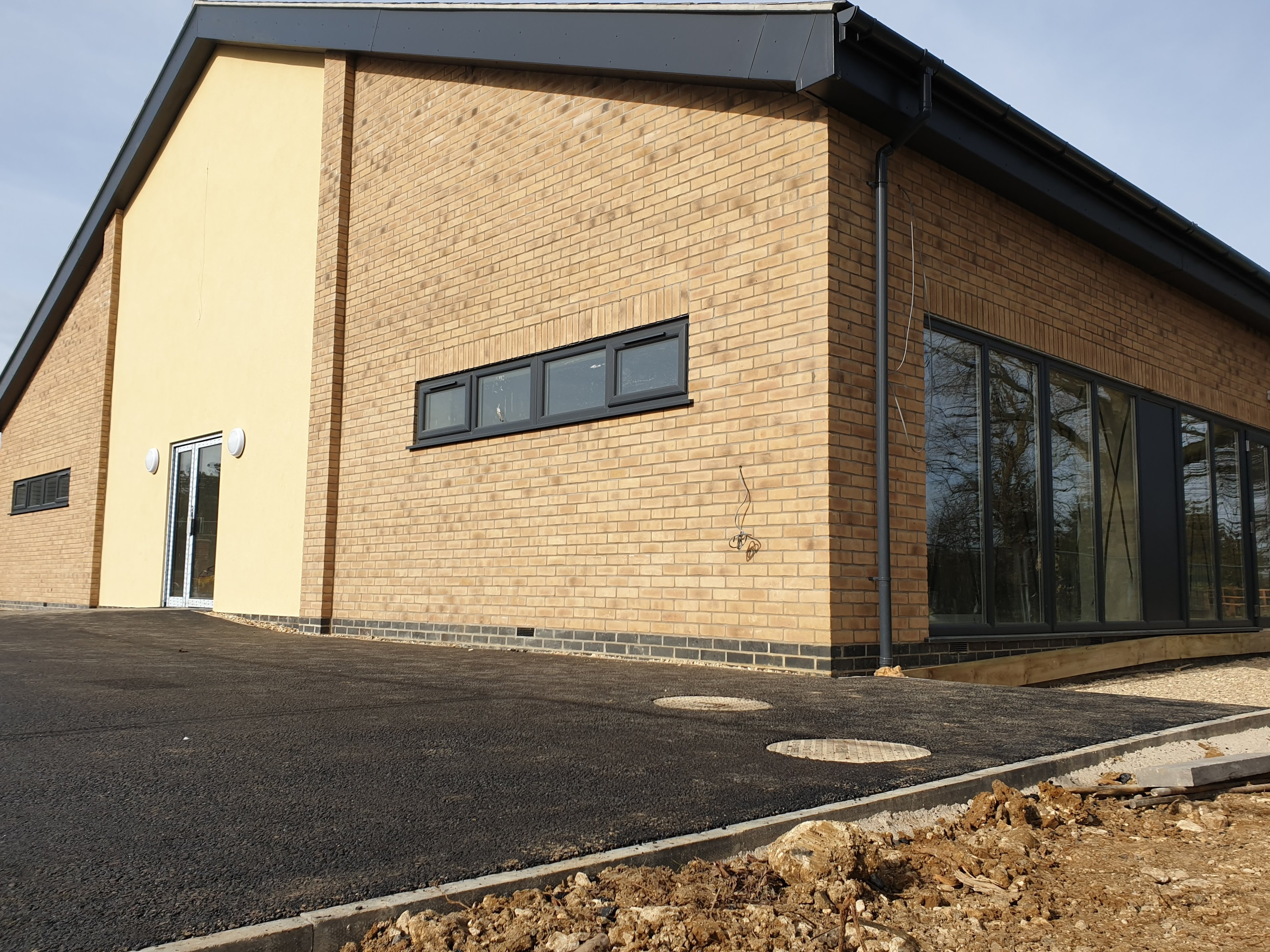 View of the southern and eastern elevation of the Nocton Hub building in Nocton the final stages of development in March 2020